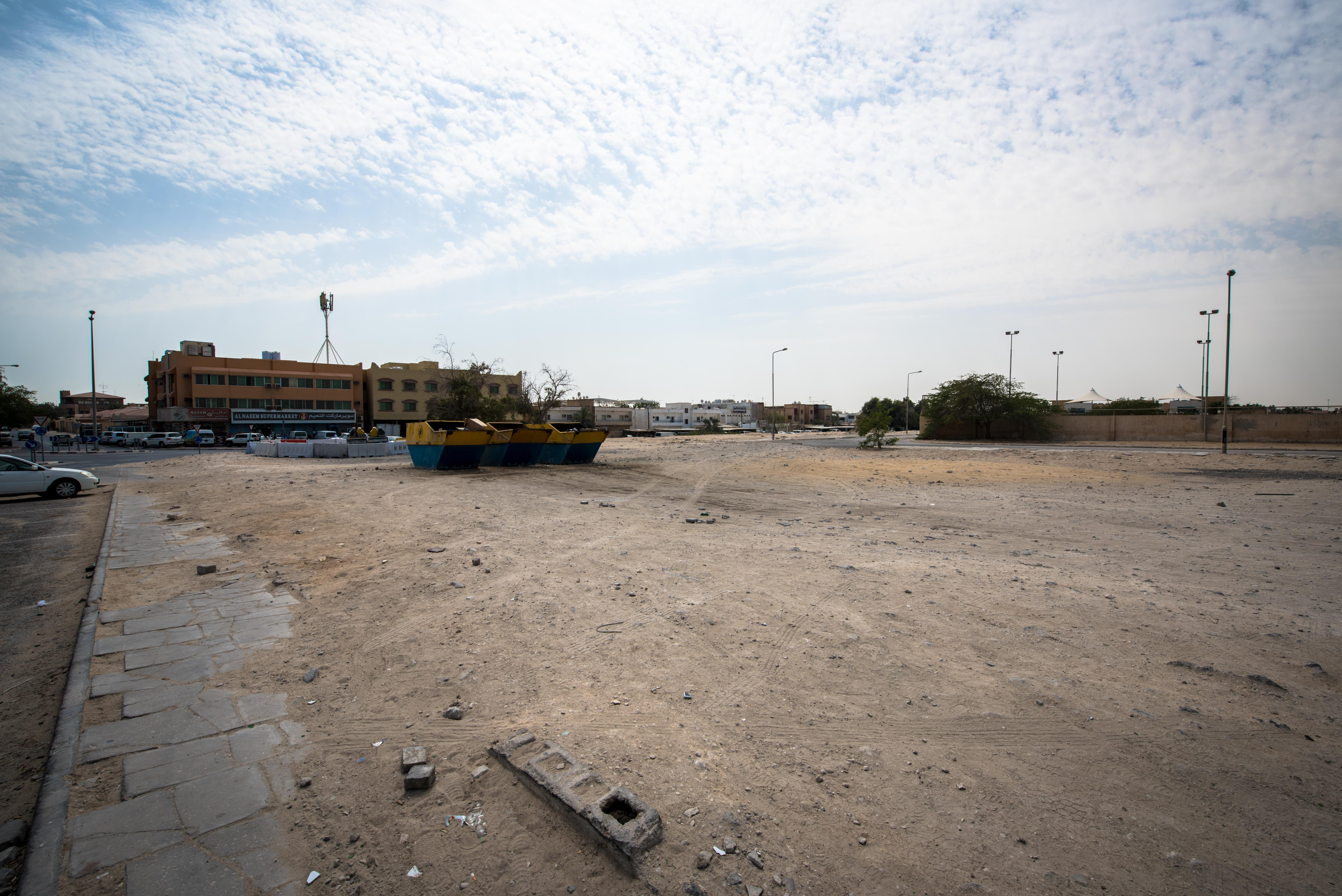 An undeveloped plot of land in Umm Ghuwailina in Doha, Qatar.